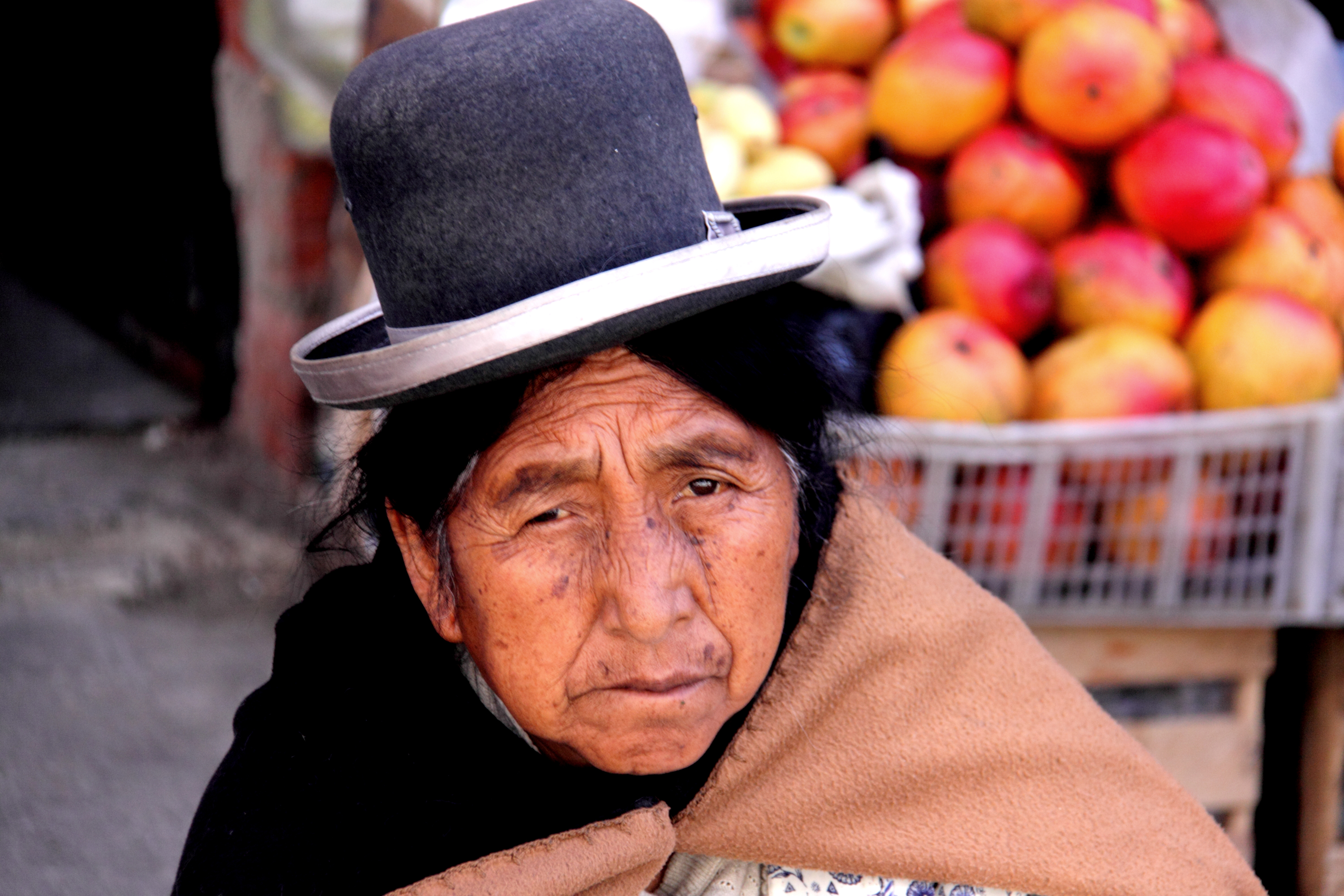 bolivia, la paz, traditional hat